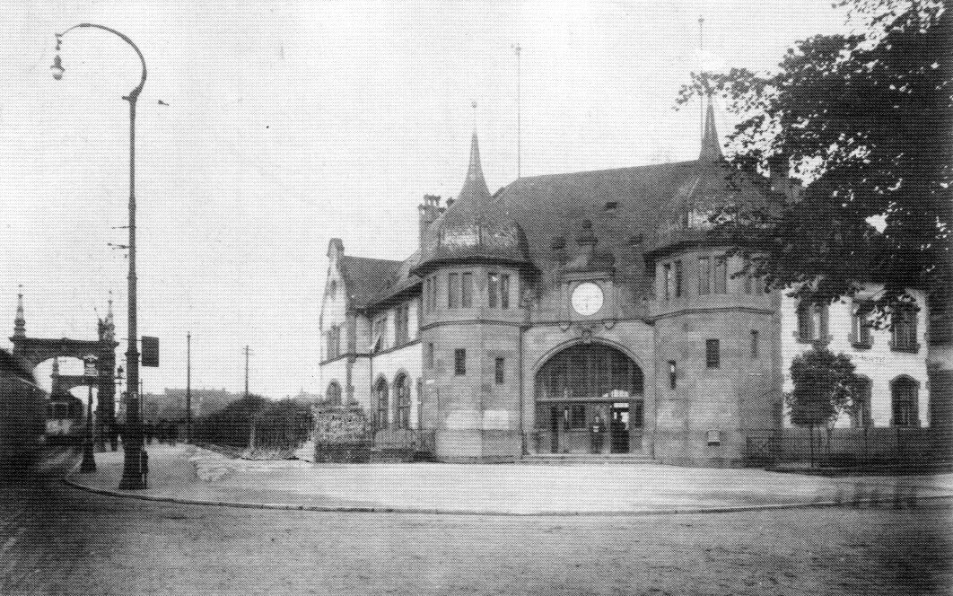 Station Mannheim-Neckarstadt, Prussian-Hessian state railway, built in 1901, destroyed in WWII - photo taken 1912.